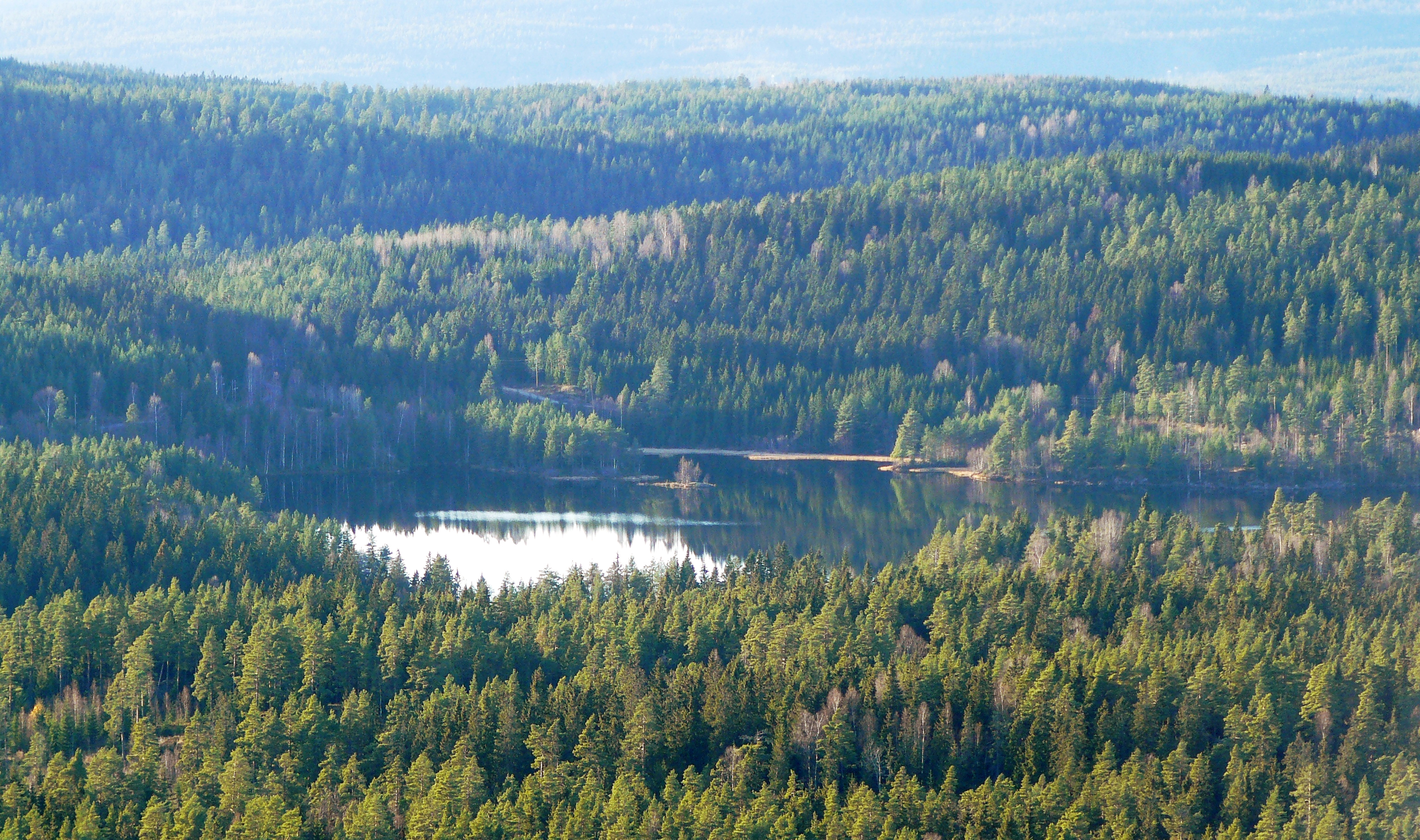 Breisjøen in Lillomarka, Oslo Norway. Seen from Romsås.